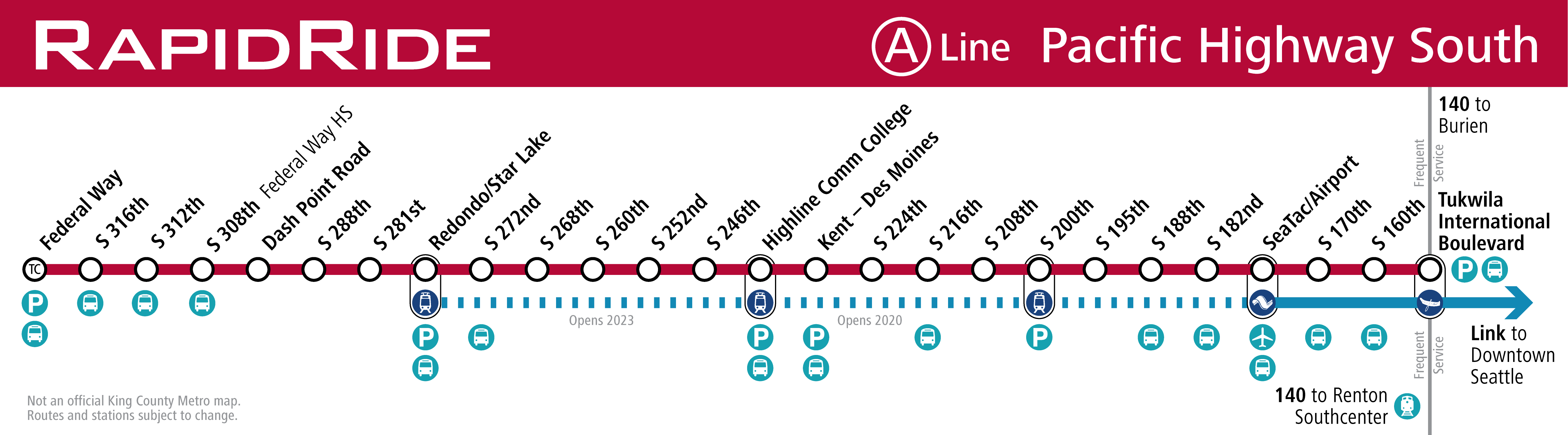 Mockup map of RapidRide A Line created by Oran Viriyincy